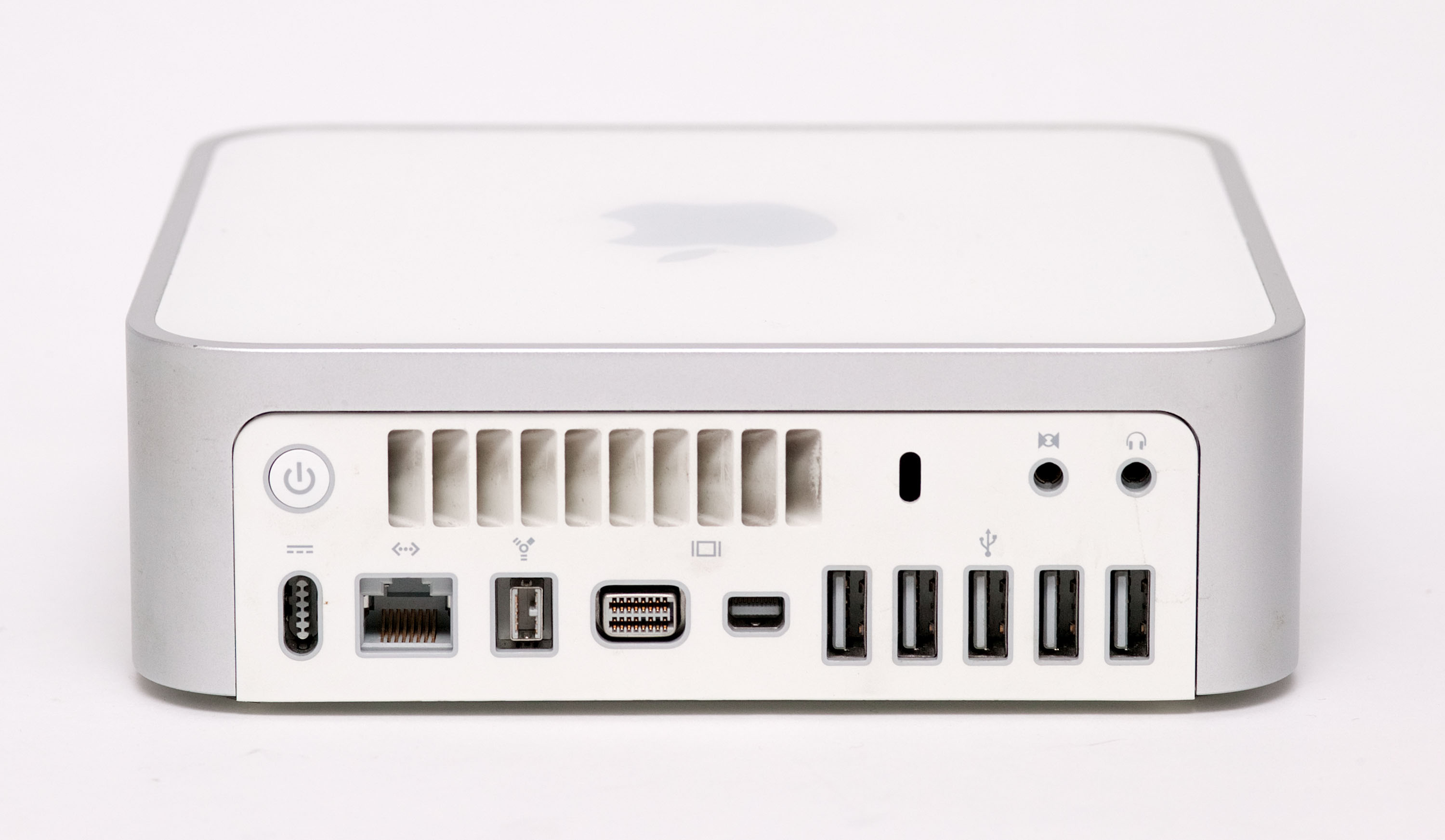 The rear panel of an early-2009 Mac Mini